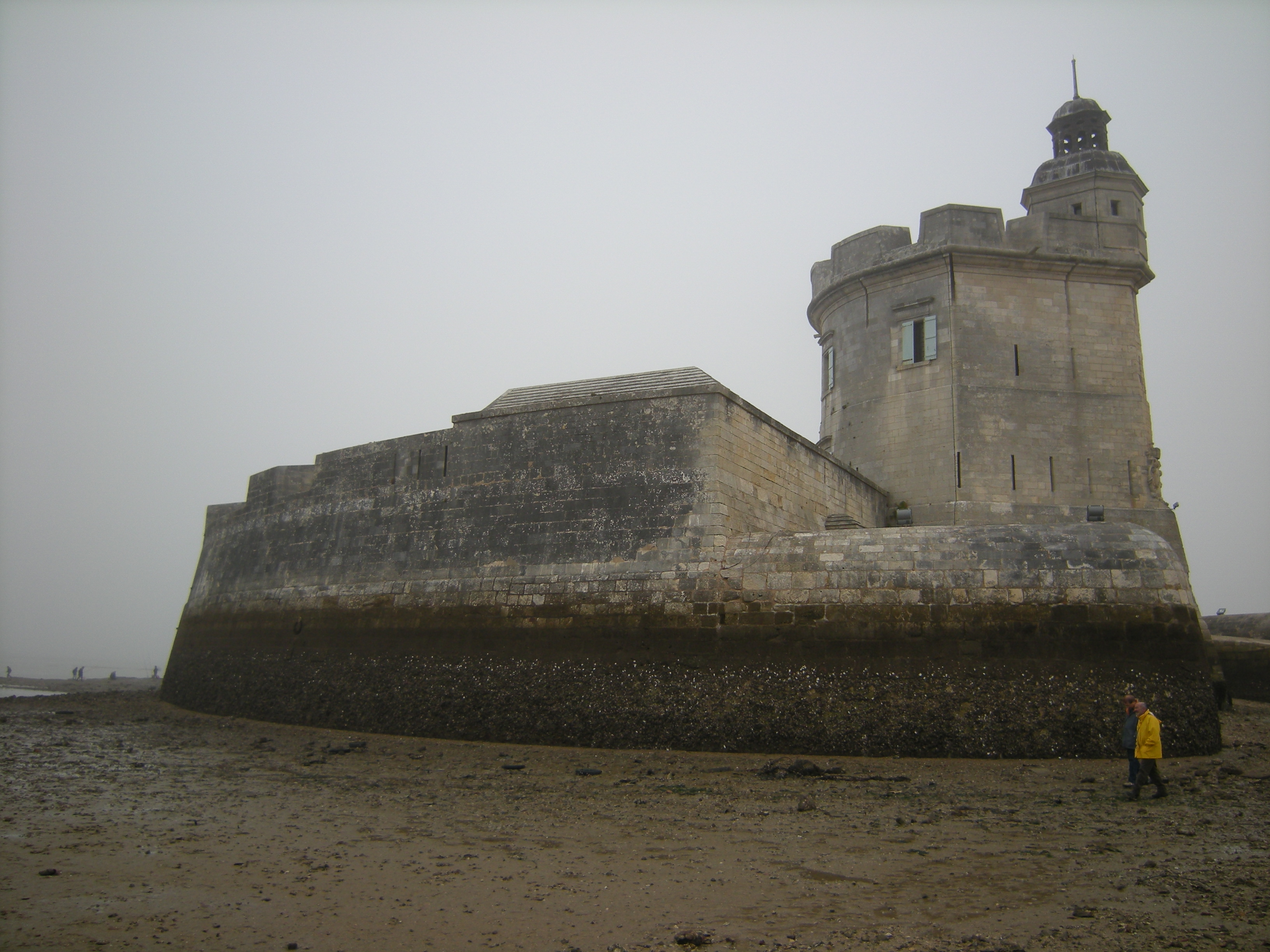 Fort Louvois, in France, at low tide.